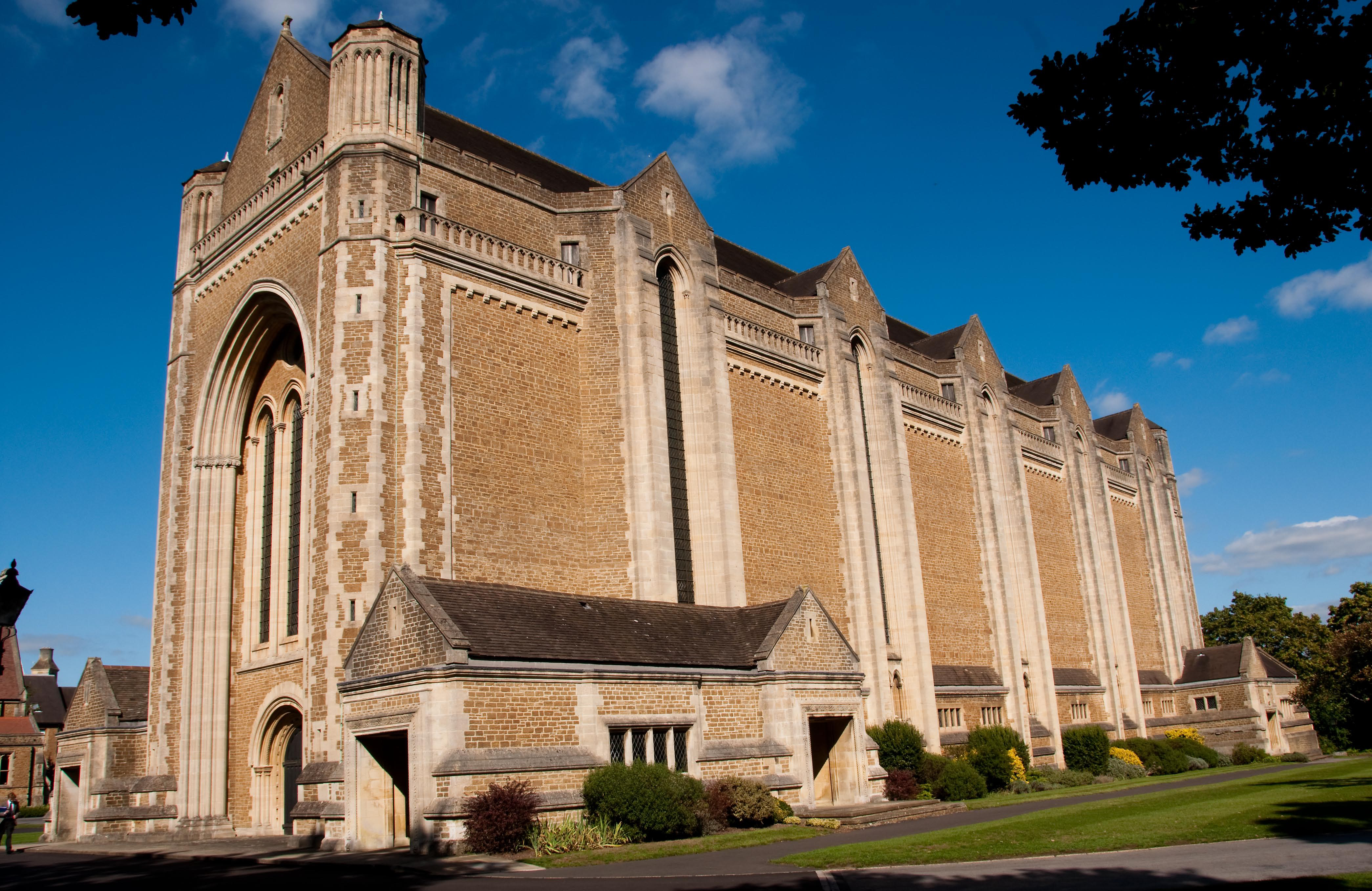 Chapel at Charterhouse School seen looking Northeast